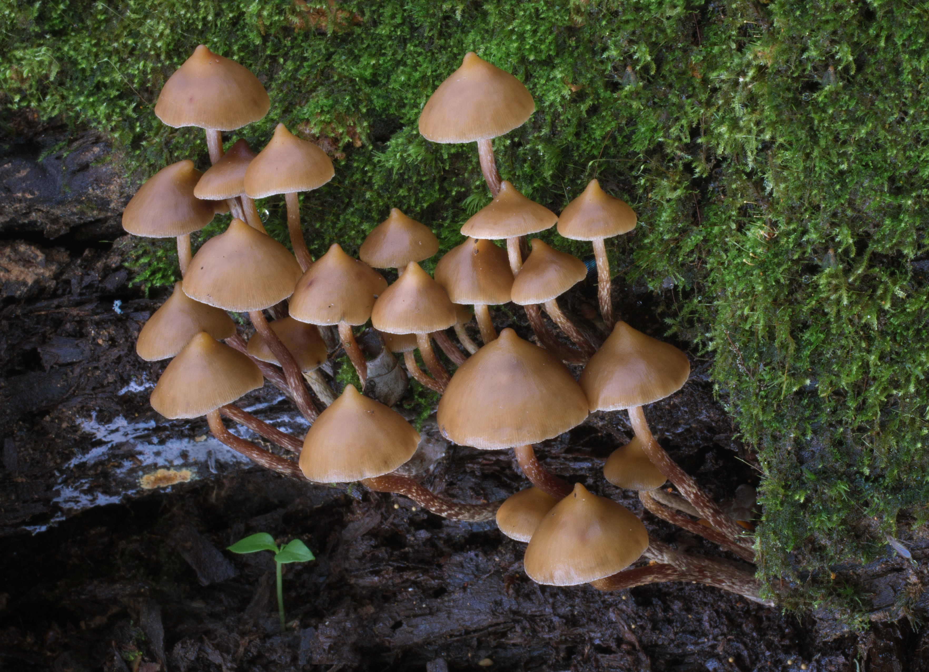 Psilocybe yungensis from Western Jalisco, Mexico.